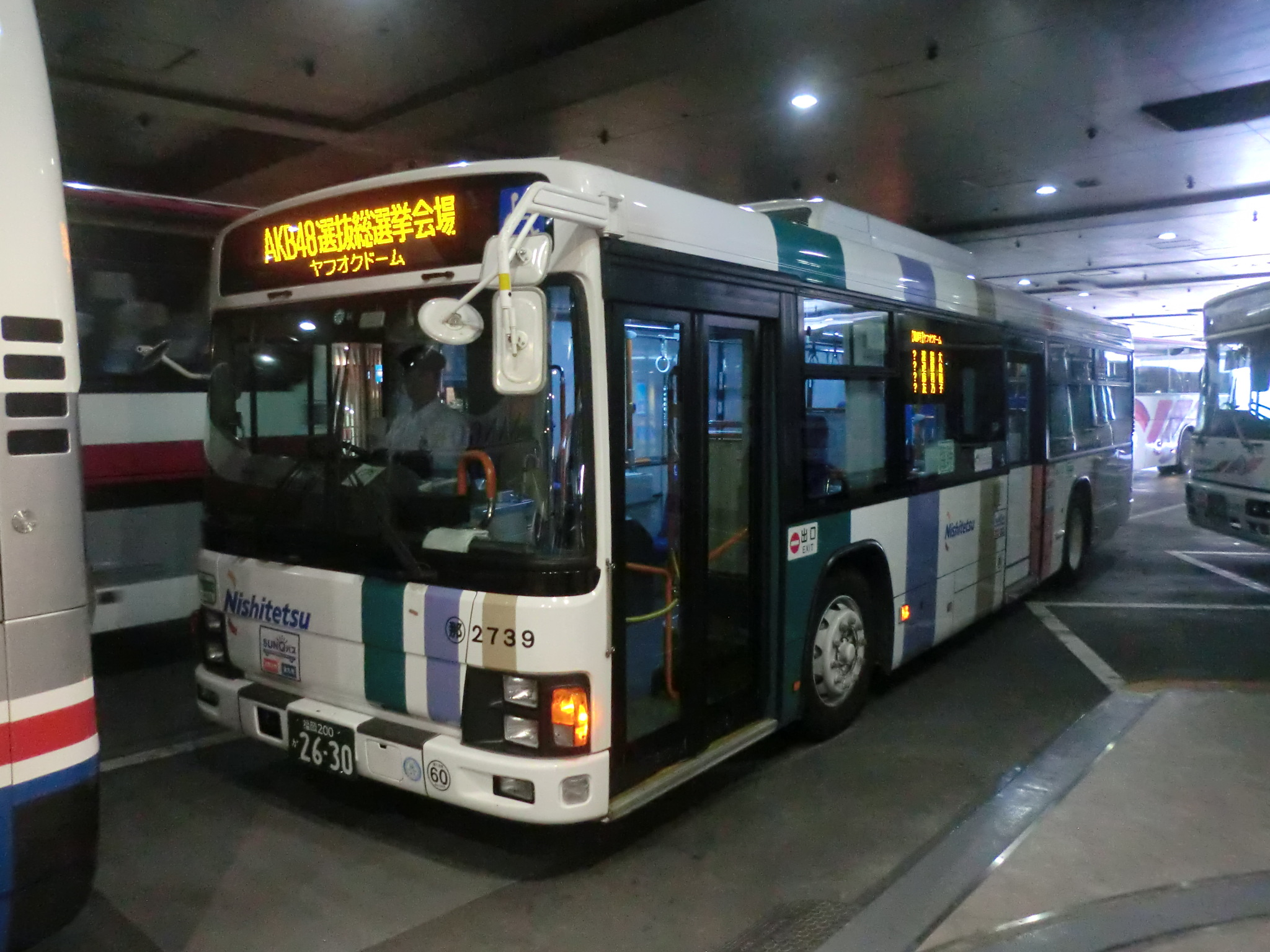 Special bus by Nishitetsu Bus for AKB48 41st Single General Election event held on June 6 2015, at Fukuoka Dome.